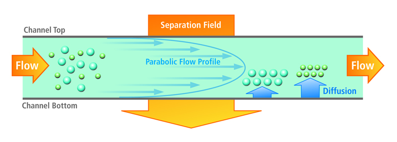 Flow Field-Flow Fractionation (AF4) channel cross section, where the rate of laminar flow within the channel is not uniform. It travels in a parabolic pattern with the speed of the flow, increasing towards the centre of the channel and decreasing towards the sides.